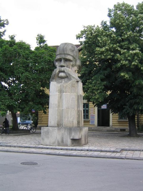 Monument to the reformer of Serbian language, Vuk Karadžić in front of the old railway station building in Valjevo, Serbia